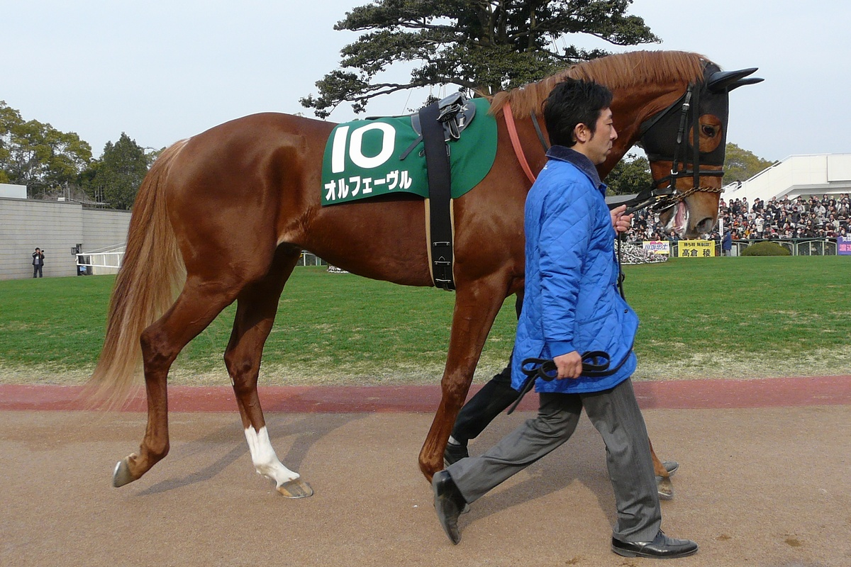 Orfevre at the 2011 Kisaragi Sho horserace